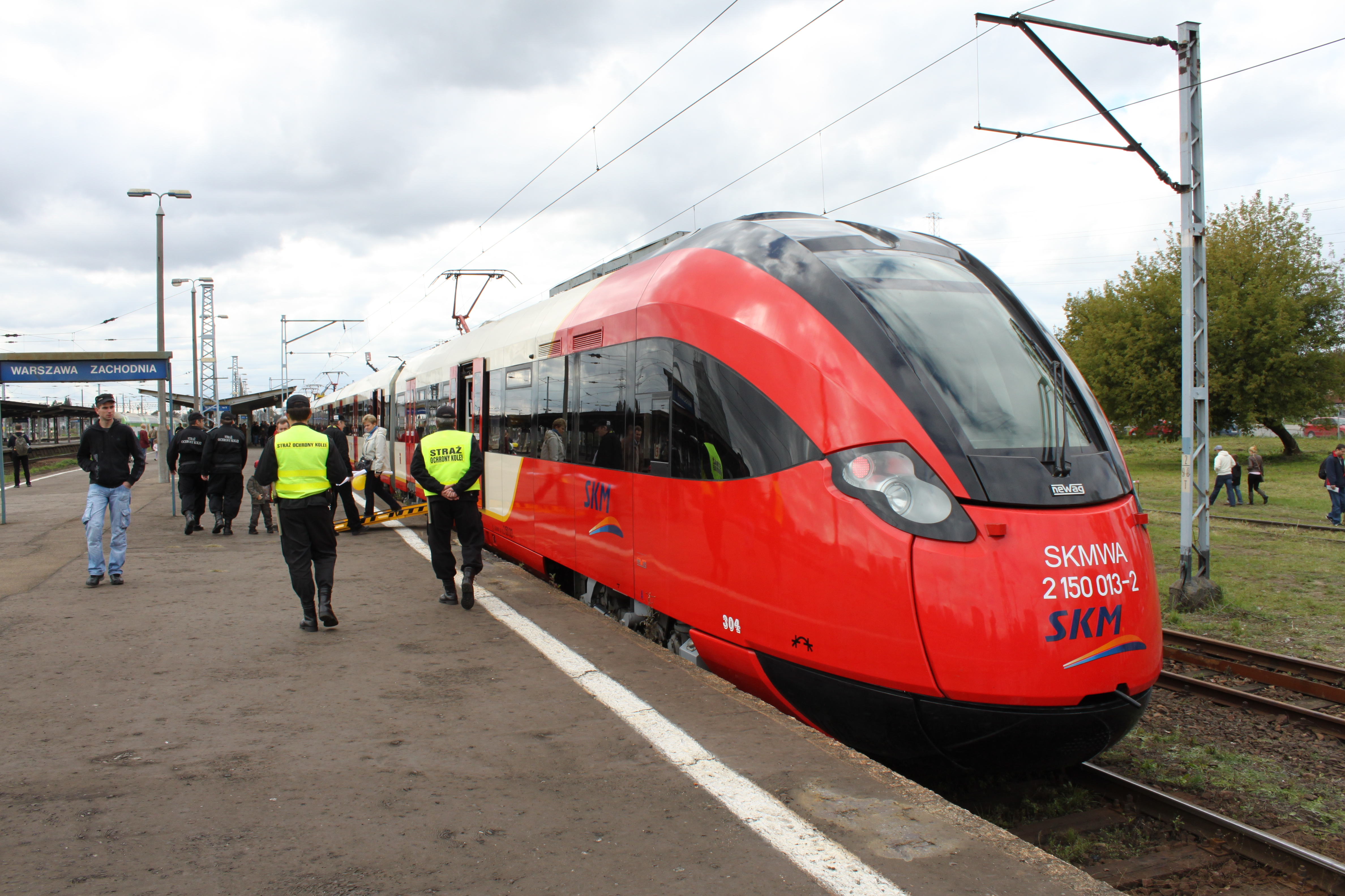 SKM Warszawa train Newag 19WE (#2 150 013-2), Public Transport Days 2010, Warszawa Zachodnia, Poland